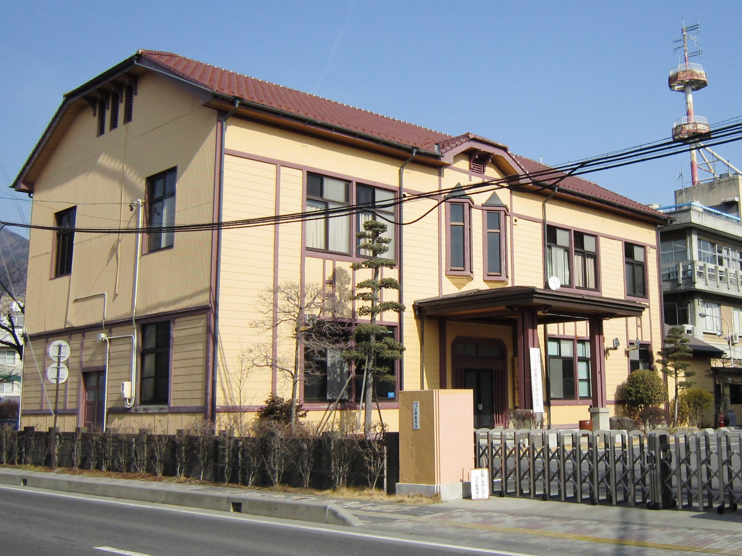 Chiisagata Ueda Kyoikukaikan.